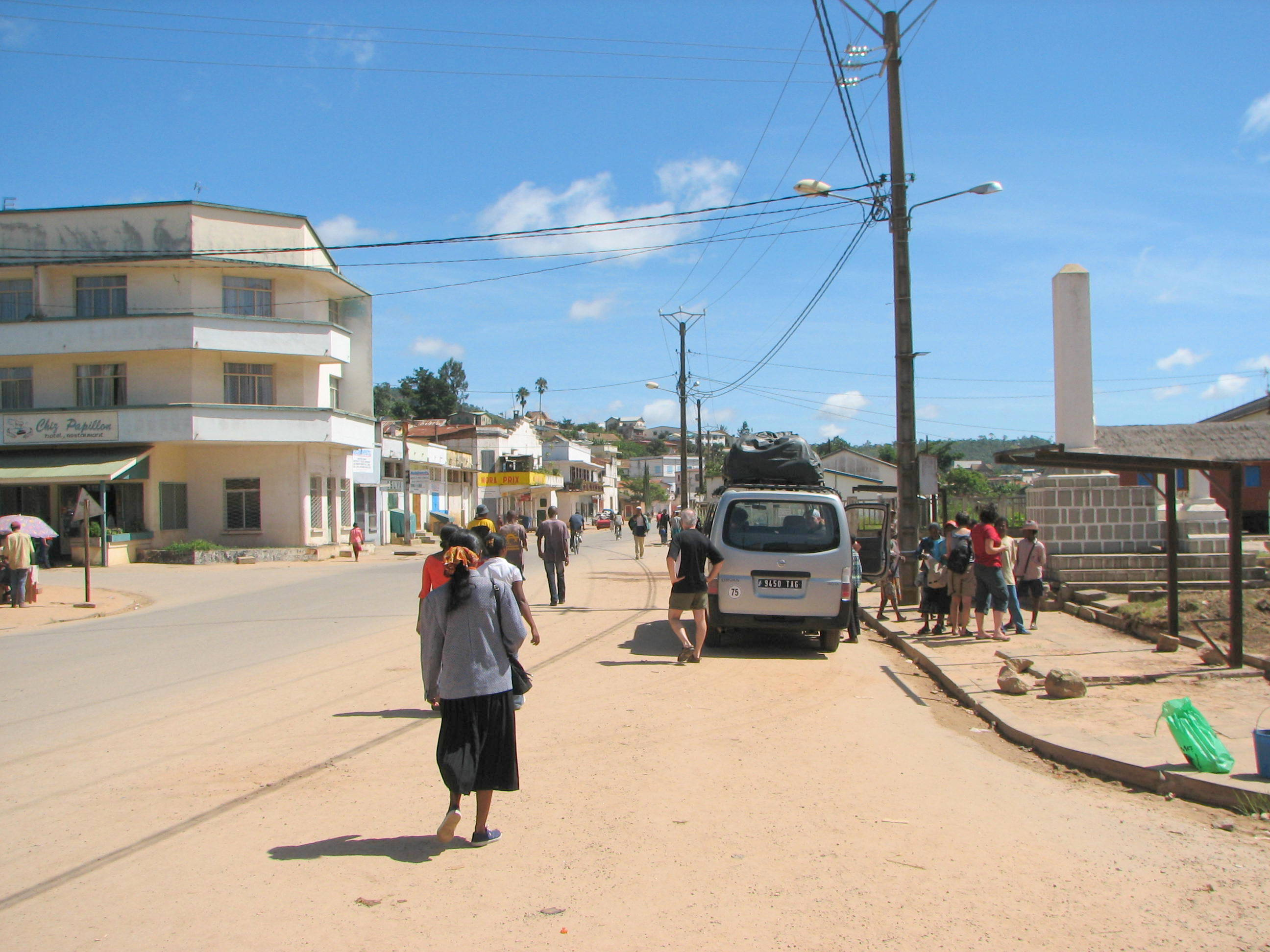 Fianarantsoa street, Madagascar